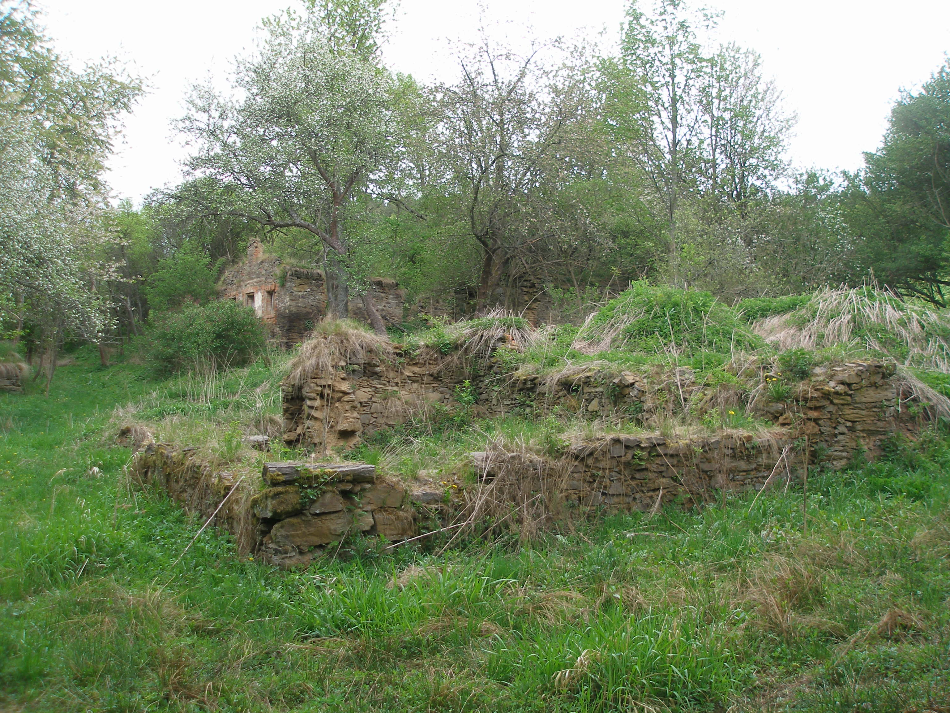 Záhoří (part of city Černošín) - ruins of the original buildings of the village